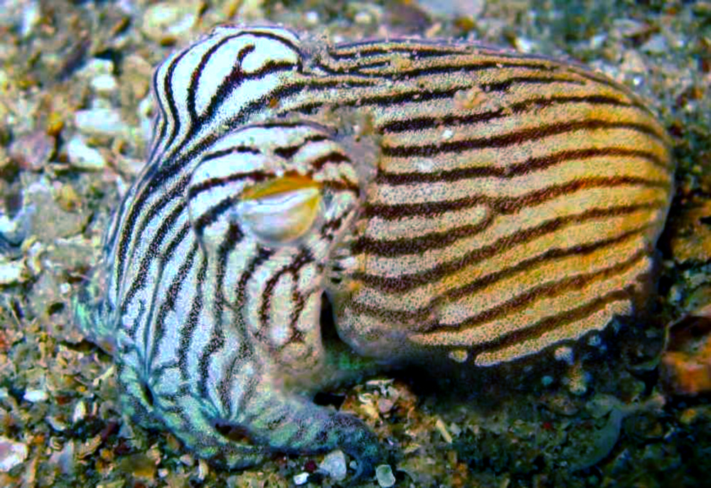 A Striped Pyjama Squid (Sepioloidea lineolata), camouflaged against a substrate of broken shells. Location: Pipeline, Port Stephens, Australia